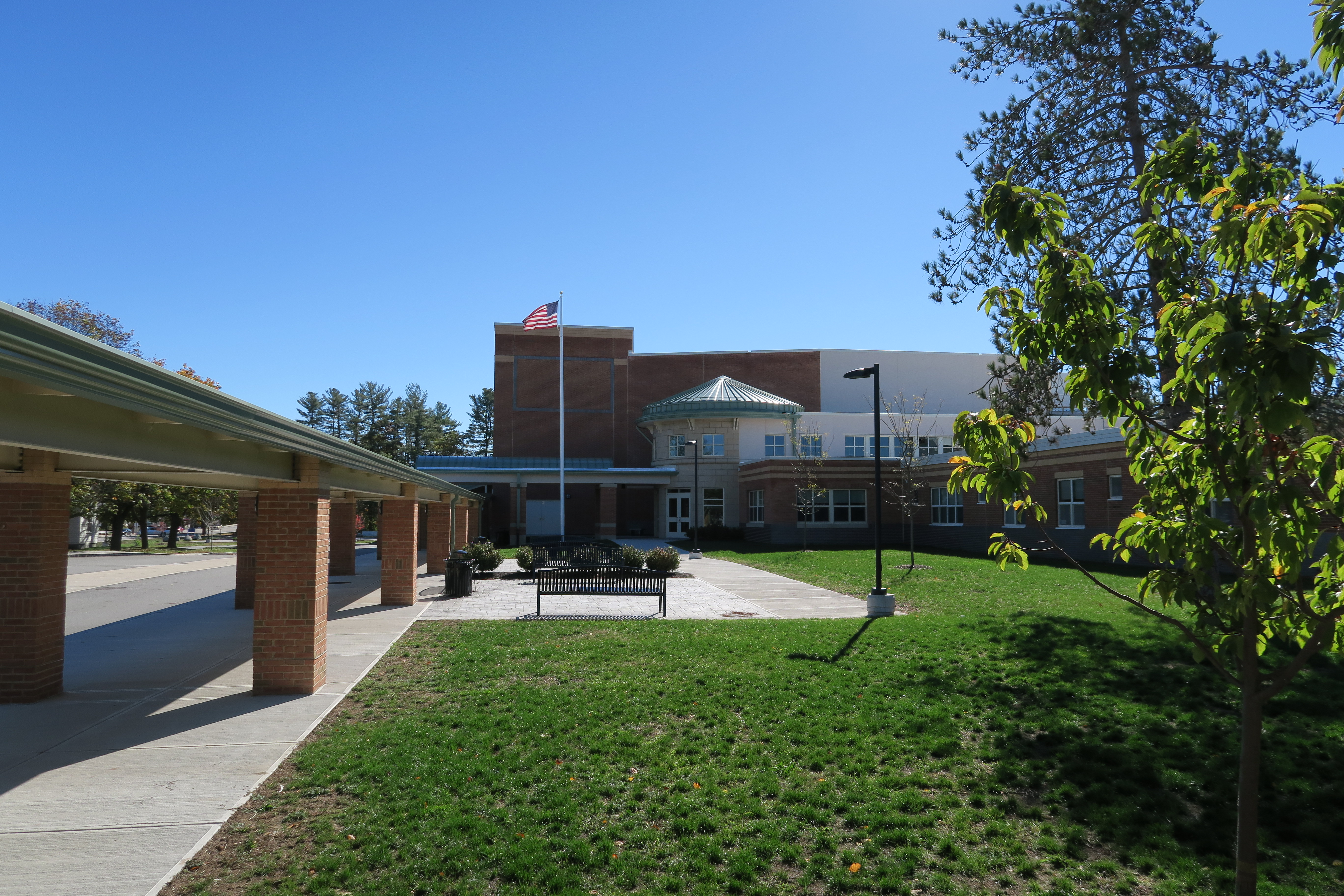 Courtyard, Dracut High School, Dracut Massachusetts